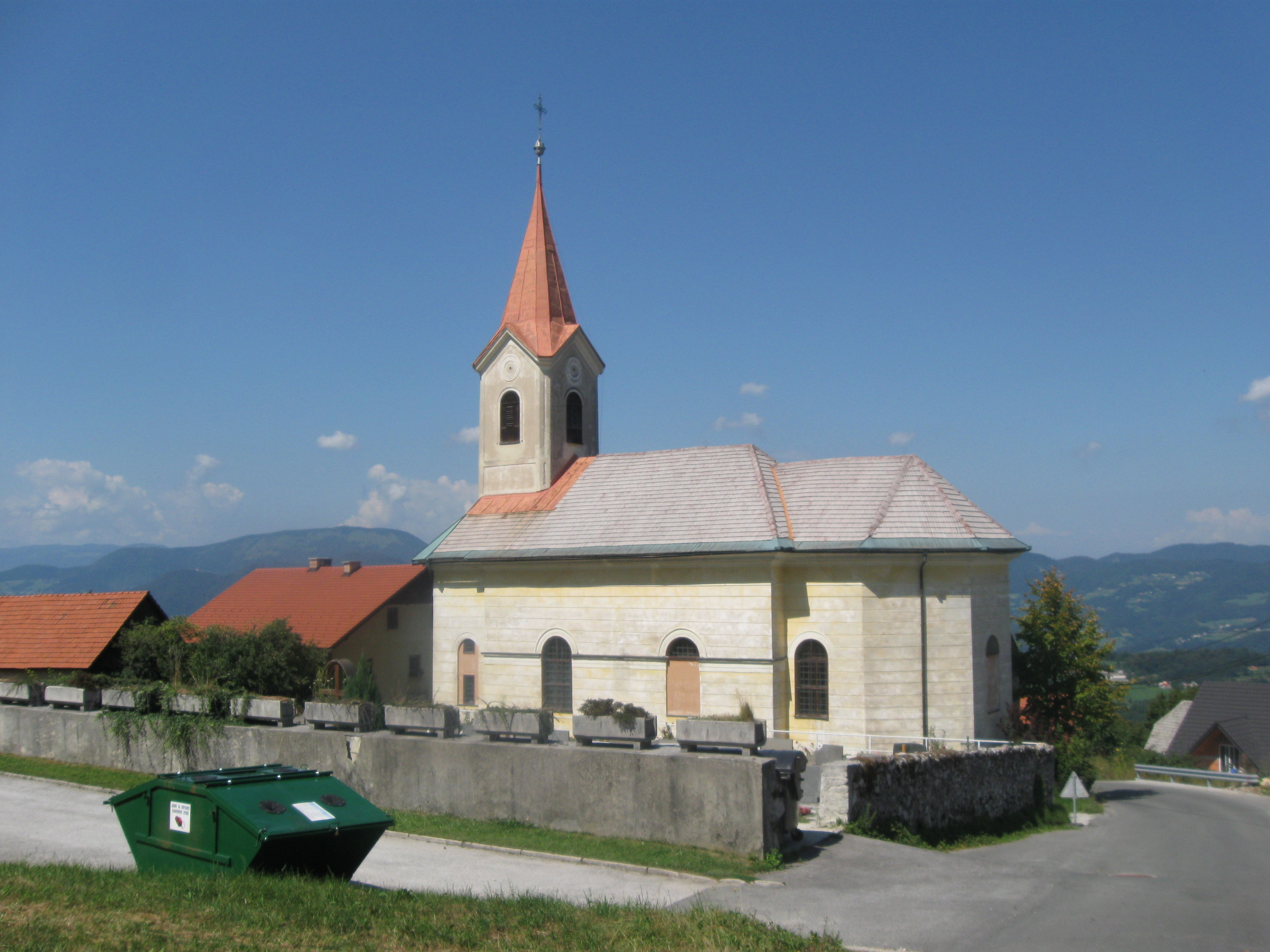 Dobovec, Trbovlje, Slovenija